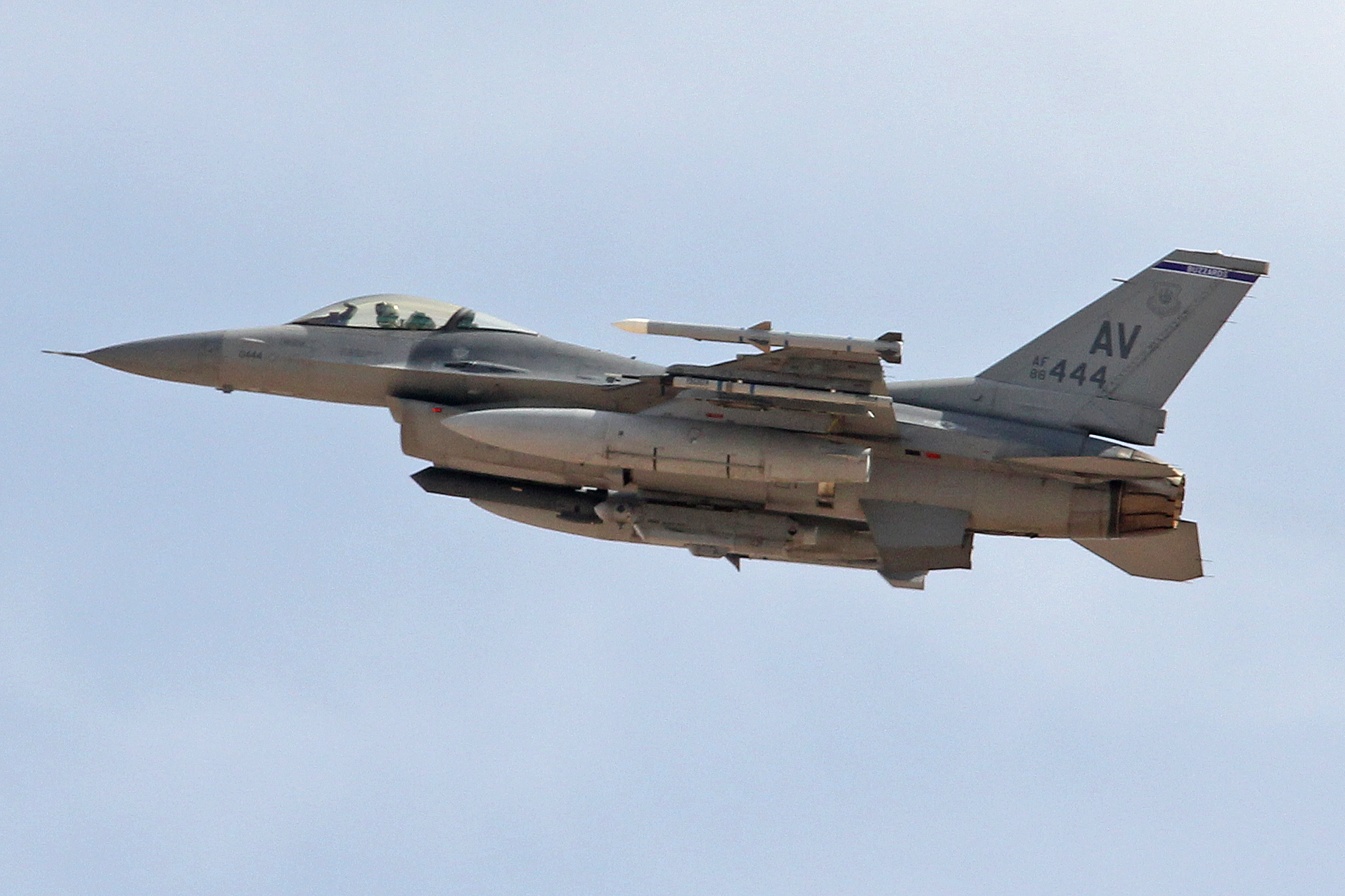 c/n 1C-46. Full US military serial 88-0444. Operated by the 510th Fighter Sqn, part of the 31st Fighter Wing based at Aviano Airbase in Italy. Seen departing Nellis AFB, NV, USA. 1st March 2016.